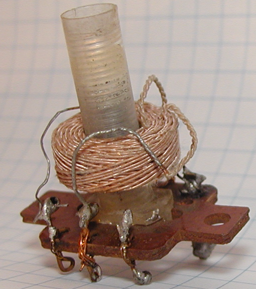 Ferrite slug-tuned radio frequency (RF) inductor from a medium wave radio receiver. It consists of a coil of wire wound around a plastic form, which contains a threaded ferrite slug which can be screwed further into or out of the coil with a screwdriver to adjust the inductance. The wire is wound in a basket weave pattern, with adjacent layers at angles to each other, to reduce parasitic capacitance and proximity effect power losses. The wire is probably a type called litz wire, consisting of several insulated strands braided together, which reduces resistance due to skin effect.